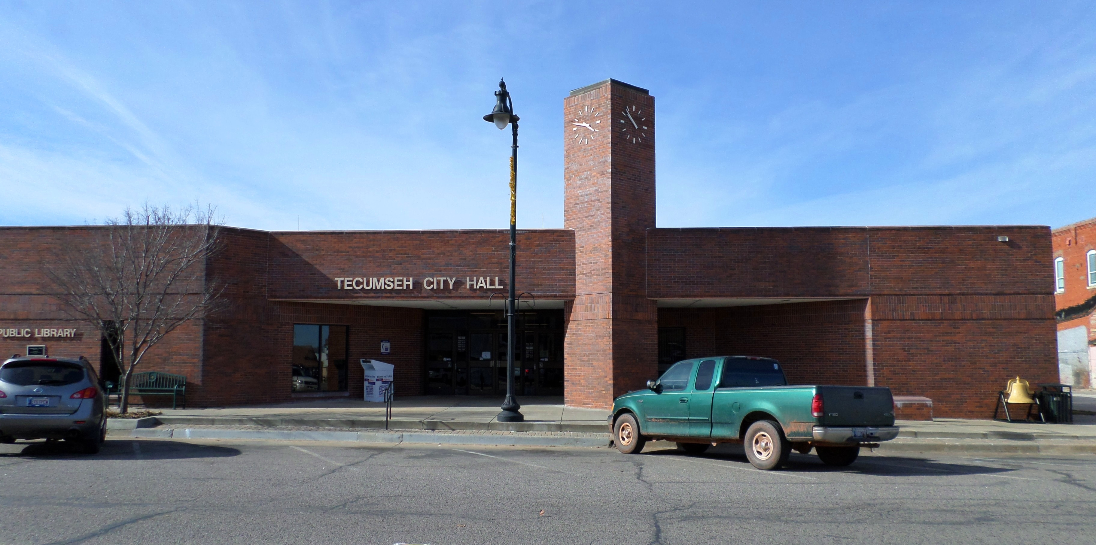 Tecumseh City Hall, located at 114 N Broadway St, Tecumseh, OK.